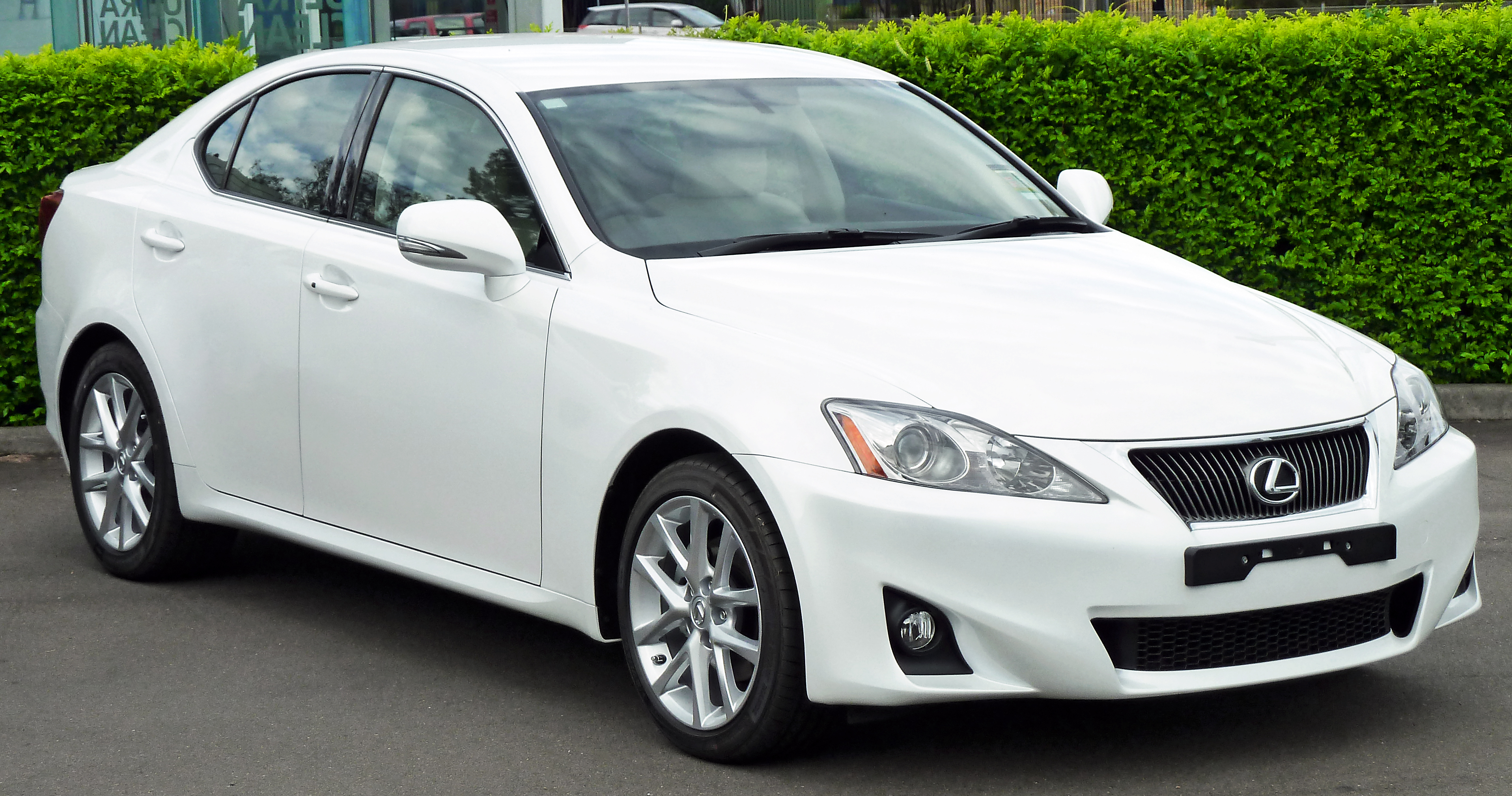 2010–2011 Lexus IS 250 (GSE20R MY11) Prestige sedan. Photographed at Lexus of Sutherland, Kirrawee, New South Wales, Australia.